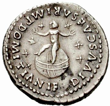 Reverse of Denarius circa 88-96, AR 3.51 g. IMP CAES DOMITIANVS AVG P M Laureate head r. Rev. DIVVS CAESAR IMP DOMITIANI F. Domitian's infant son shown as a young Jupiter seated on a globe with his hands raised toward seven stars that represent the constellation of the Great Bear. RIC 209a (hybrid). BMC –. C –. CBN –.